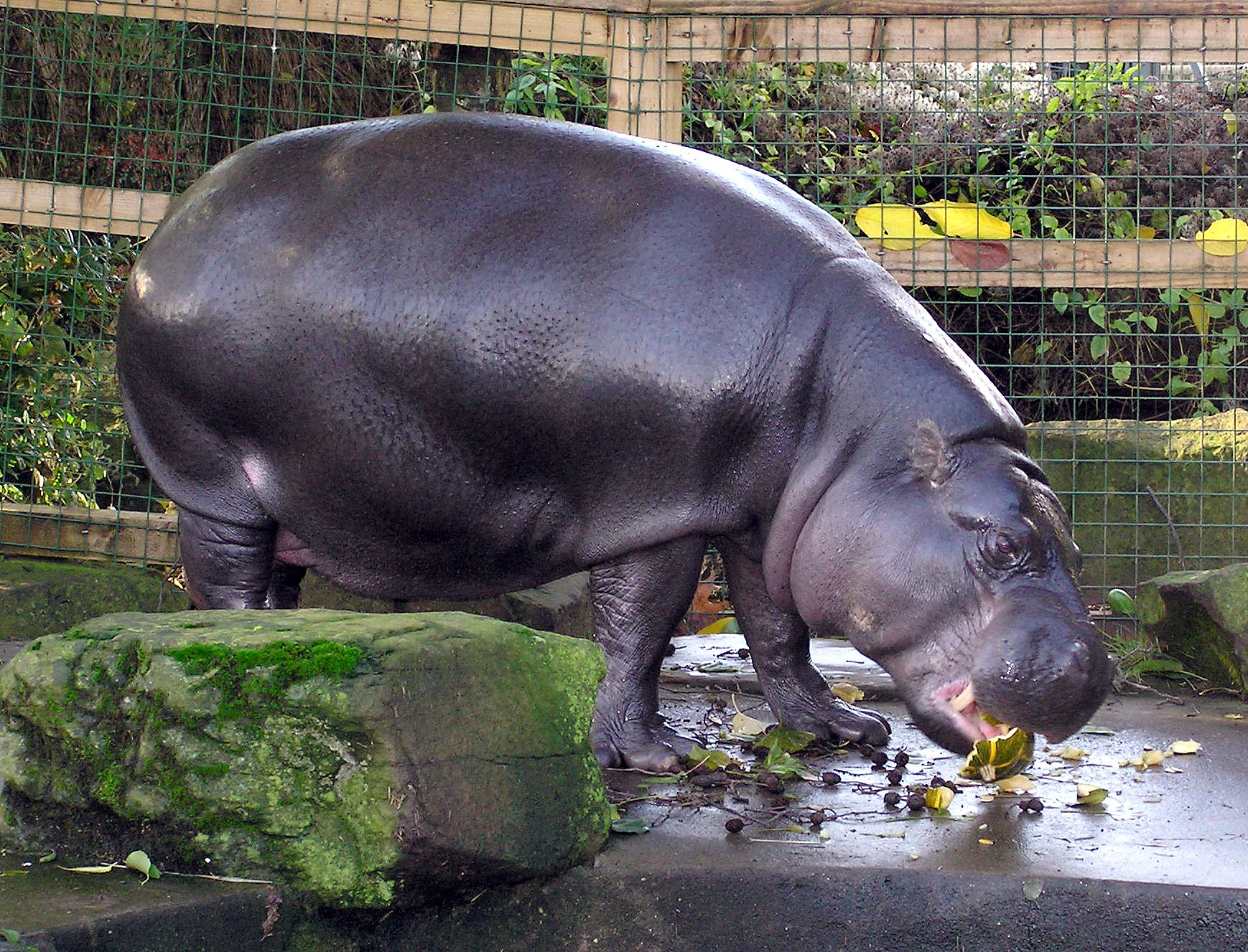 Pygmy Hippo Choeropsis liberiensis. An alternative name is Hexaprotodon liberiensis. Habitat: Dense vegetation along rivers and streams in the forests and swamps of West Africa.